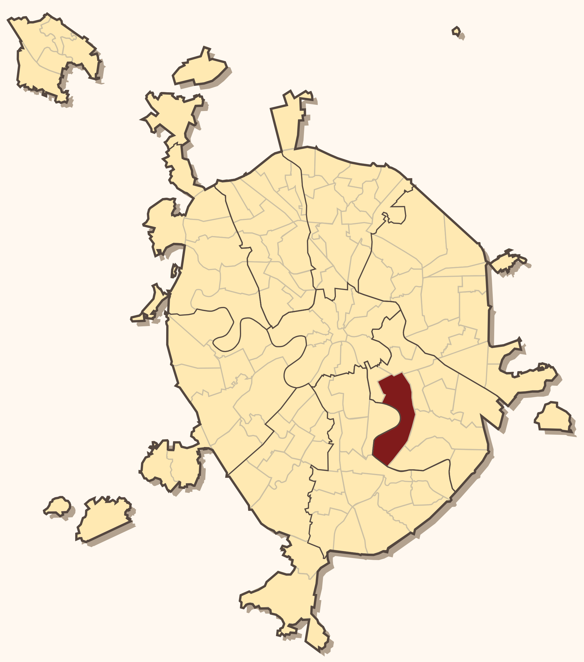 Moscow districts map